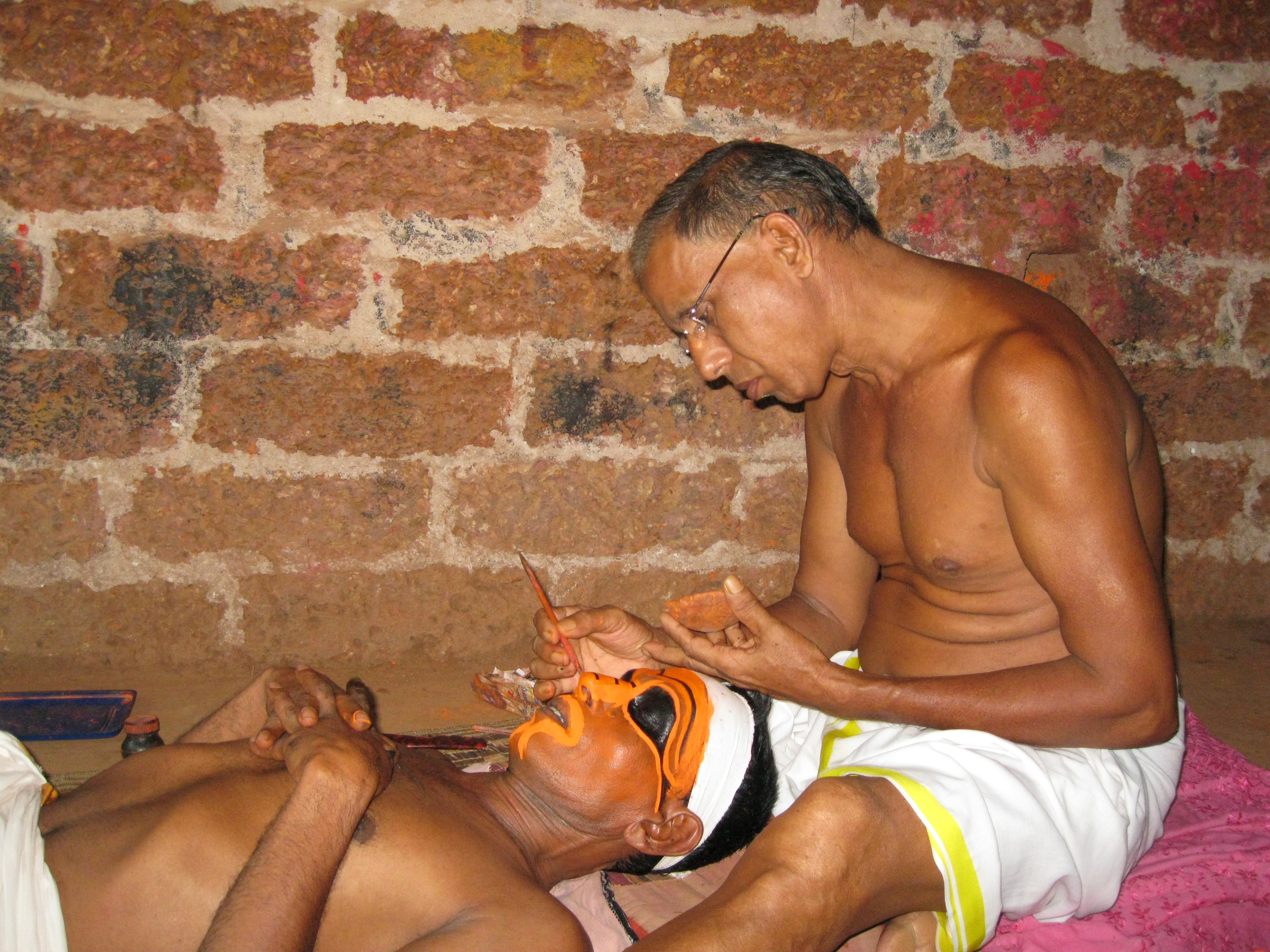 neeliyaar bhagavathi mukhaththezhuthth